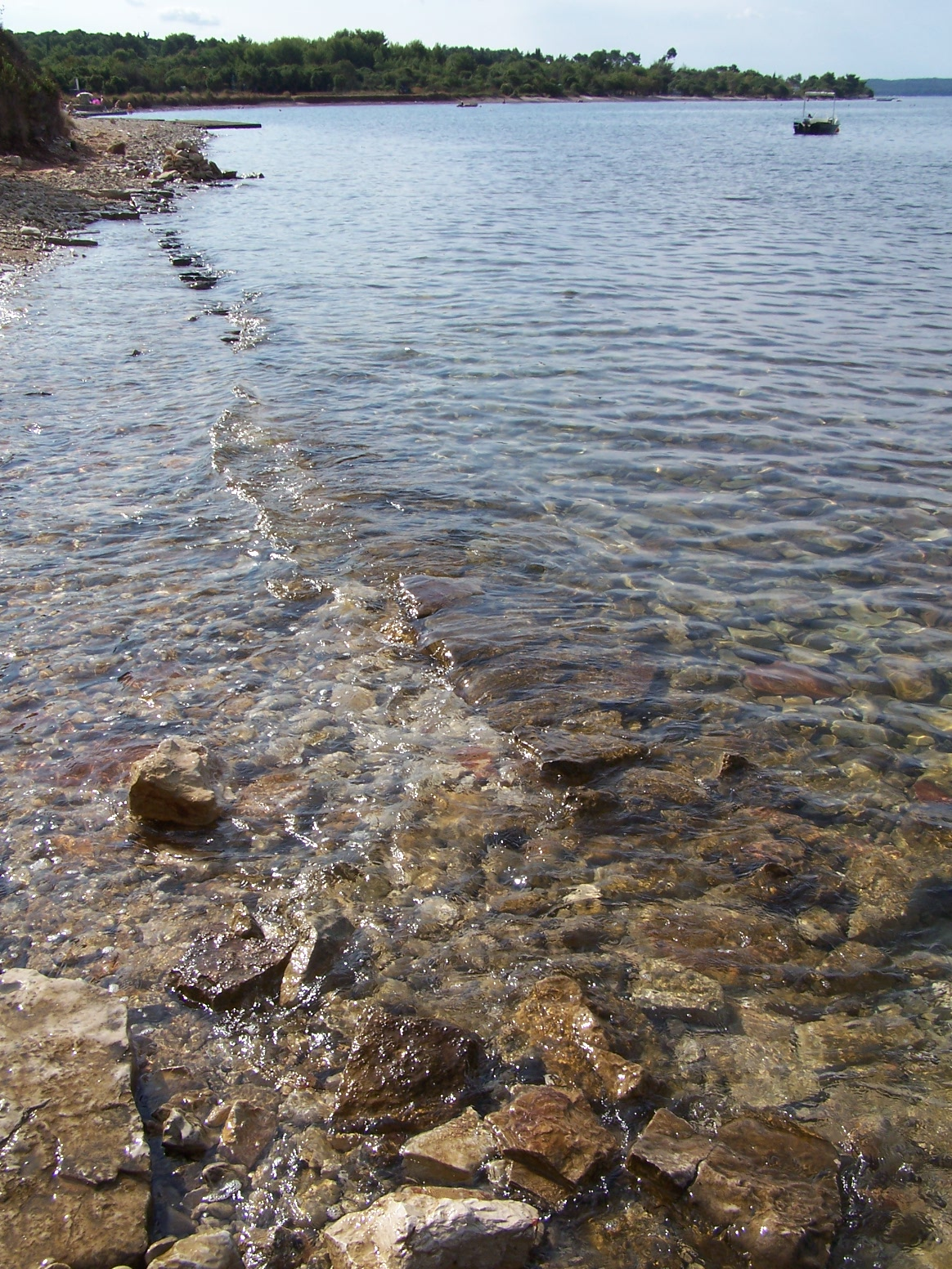 Roman remains along the beach